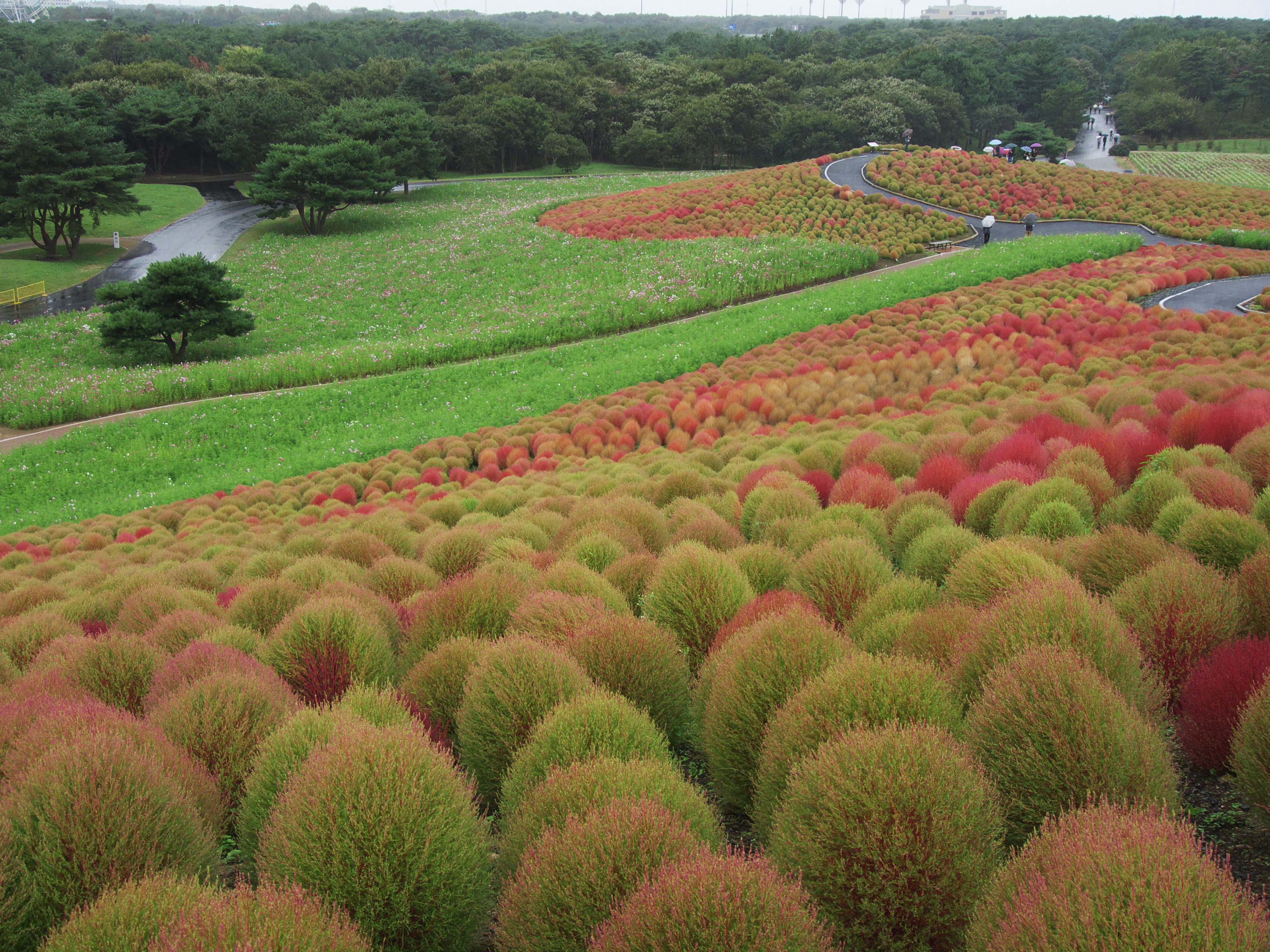 Kochia and Cosmos beds at Kokuei Hitachi Seaside Park, in Hitachinaka, Ibaraki prefecture, Japan.